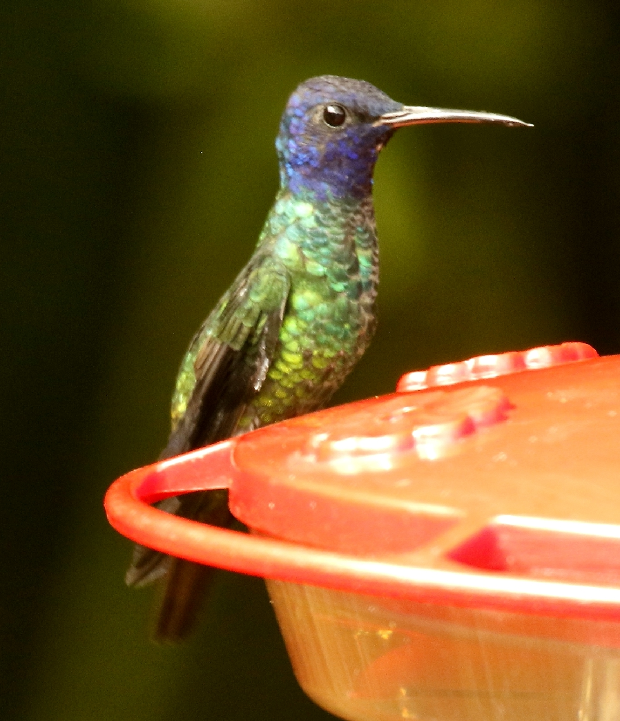 Wildsumaco Lodge - Ecuador